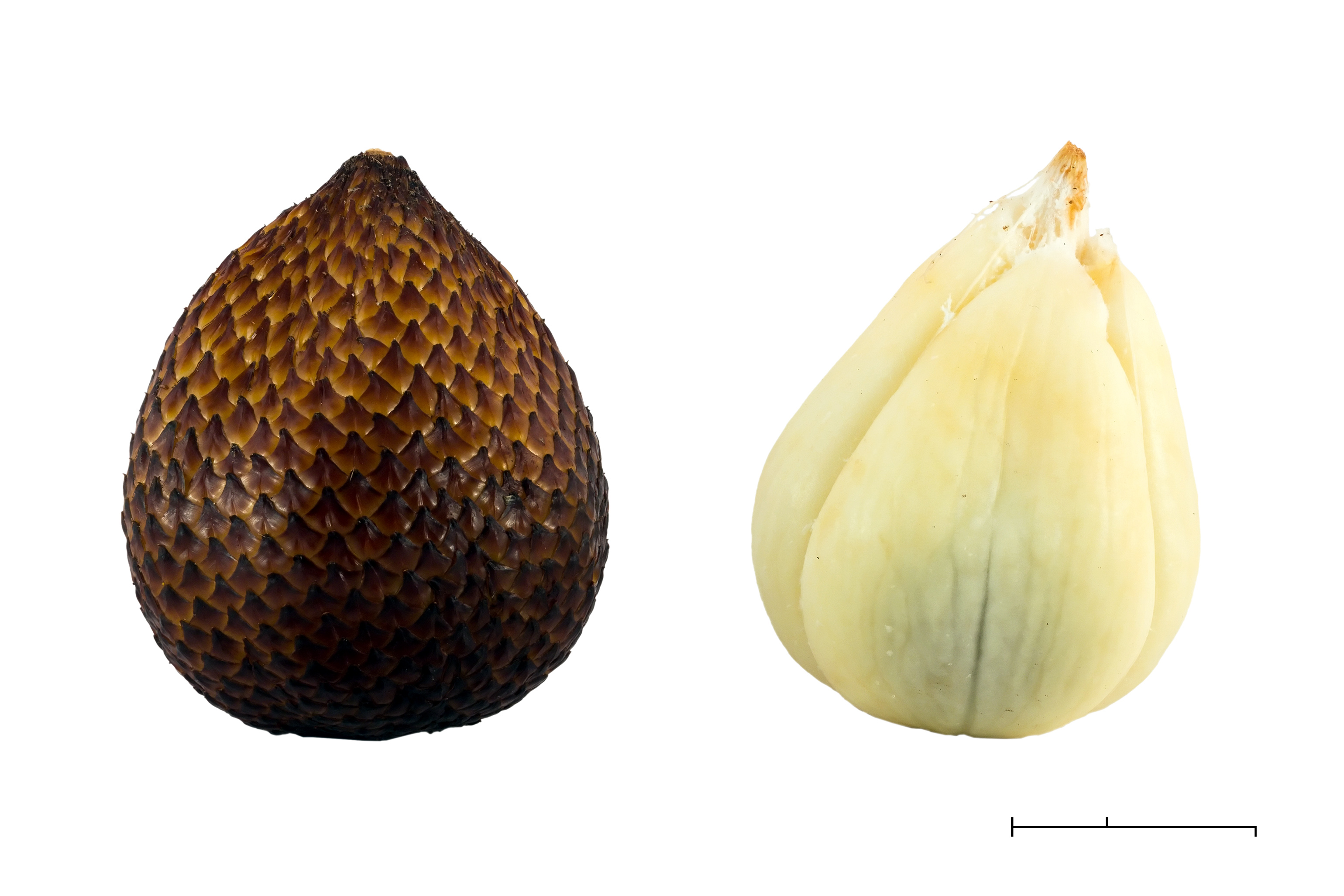 Salak (Salacca zalacca), 2015-05-17. Salak pondoh cultivar. Focus stack of four images. Scale shows 1 cm (top) and 1 inch (bottom).